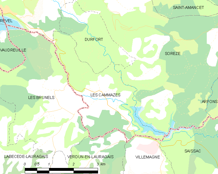 Map commune FR insee code 81055.png - Les Cammazes